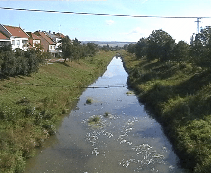 Controlled dredged river Olšava in Uherský Brod